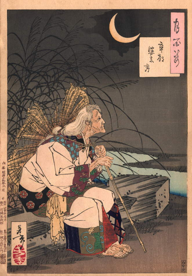 Tsukioka Yoshitoshi; 100 Aspects of the Moon #25, "Gravemarker Moon" - The famous poetess Ono no Komachi meditates on the arrogance and heartlessness she displayed to her suitors as a young beauty; 1886, third month.